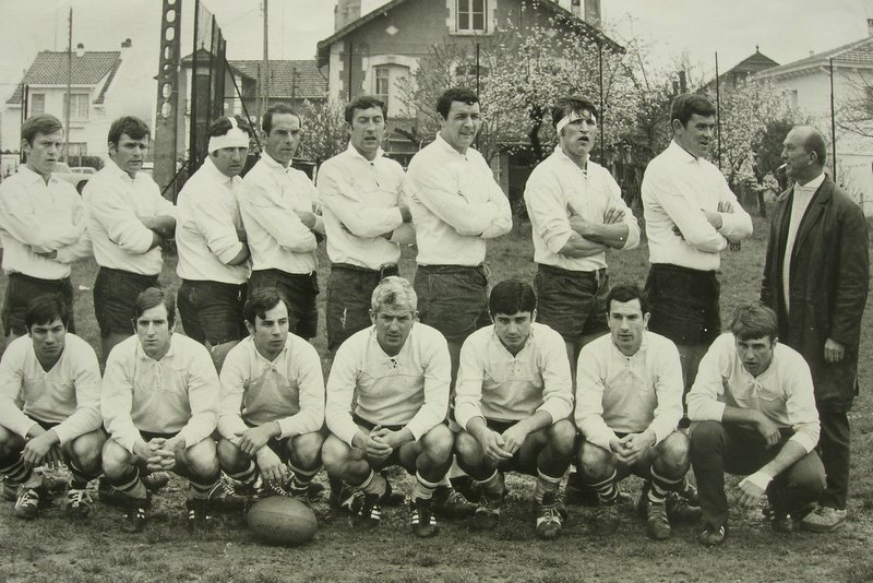 Rugby USFL French team 1967